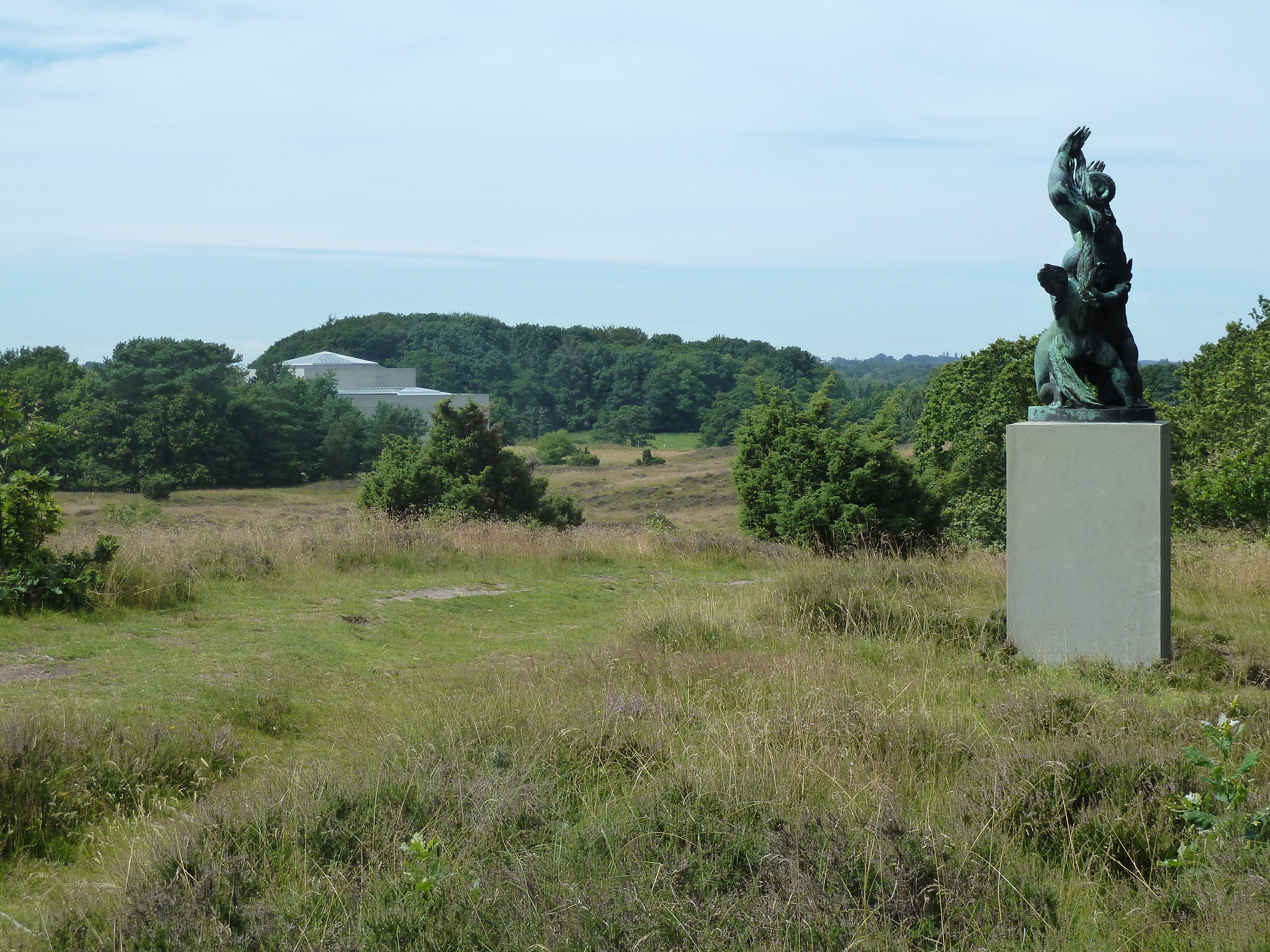 The Rudolph Tegner Museum near Dronningmølle north of Copenhagen, Denmark. Out of the 14 outdoor statues seen to the right.